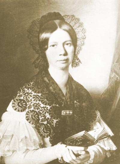 Princess Maria Dorothea of Württemberg 1797-1855, 3rd wife of Archduke Joseph Anton Johann of Austria, Palatin of Hungary